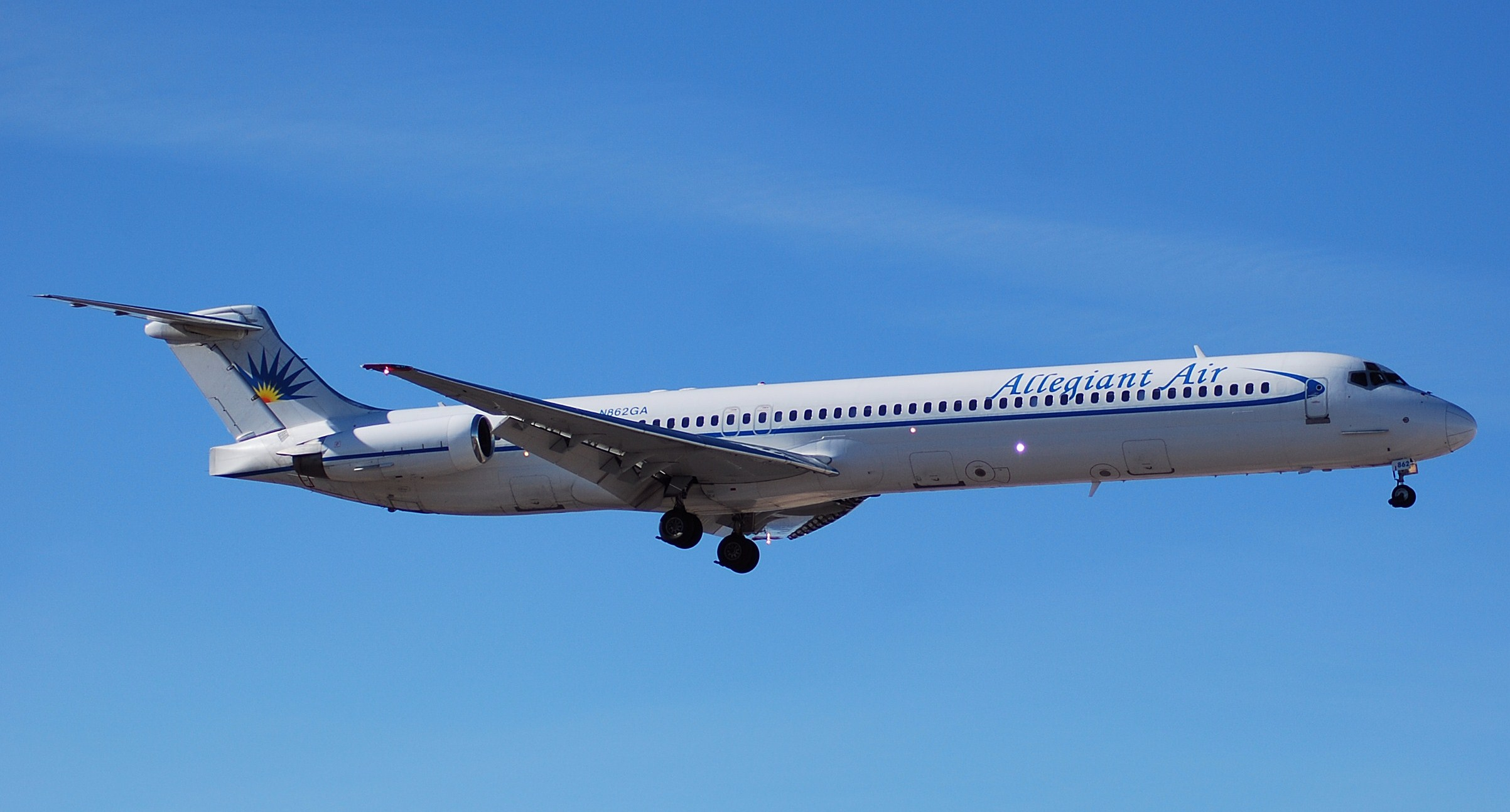 New shot for me beautiful lighting.